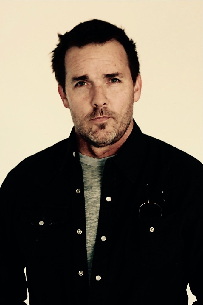 Photo Filmmaker Michael Nash 2015